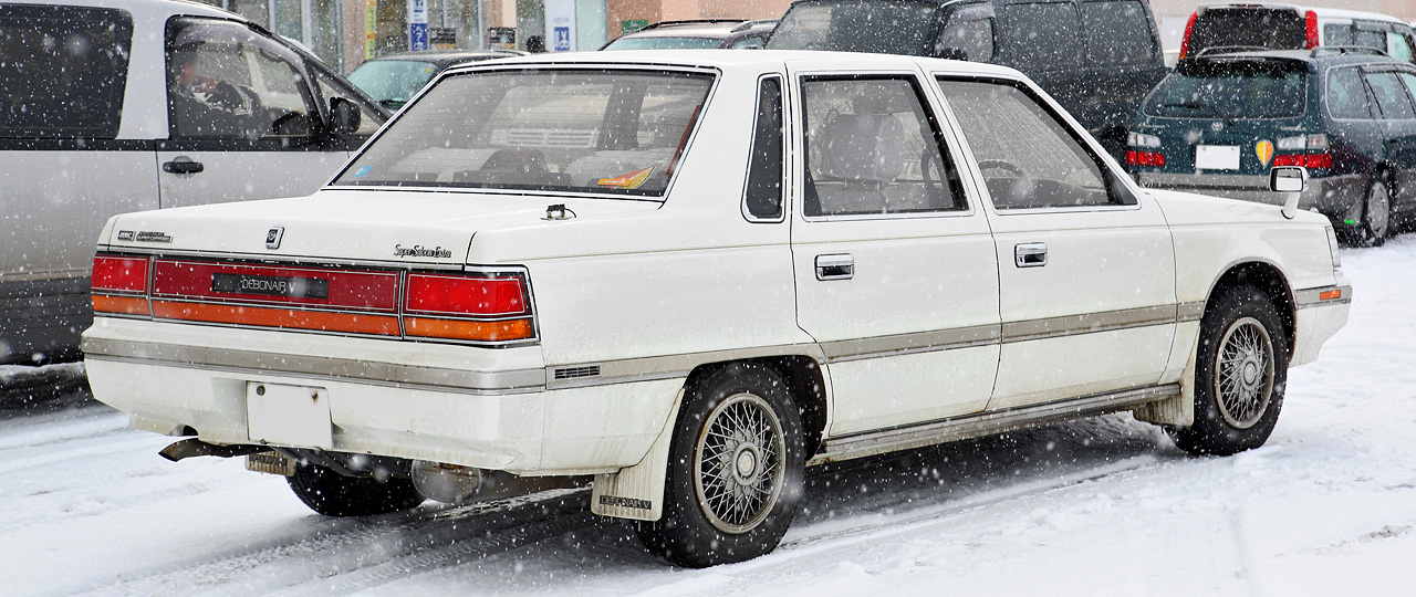 Mitsubishi Debonair V 2.0 Exceed